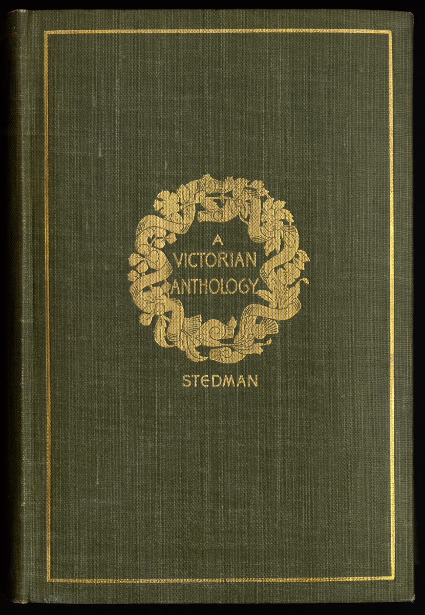 File name: 06_04_000050Title: SSTEDMAN(1895) A Victorian anthology 1837-1895Date issued: 1895Genre: Book coversNotes: Stedman, Edmund Clarence, 1833-1908 (Editor)Collection: Sarah Wyman Whitman BindingsLocation: Boston Public Library, Special CollectionsRights: No known copyright restrictions.